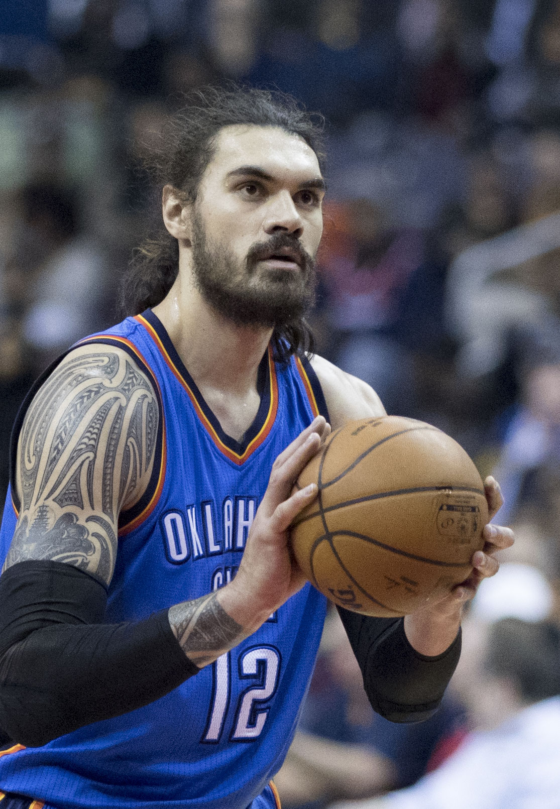 Thunder at Wizards 2/13/17